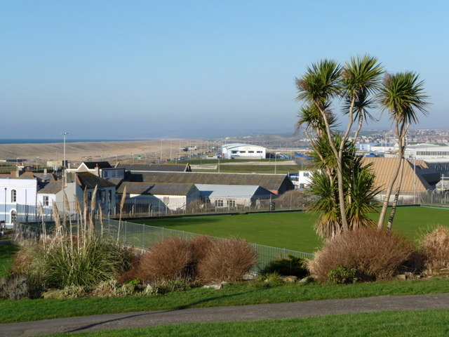 Portland: Victoria Gardens palm trees. On this cold, windy December day, palm trees did not seem to be a likely sight.